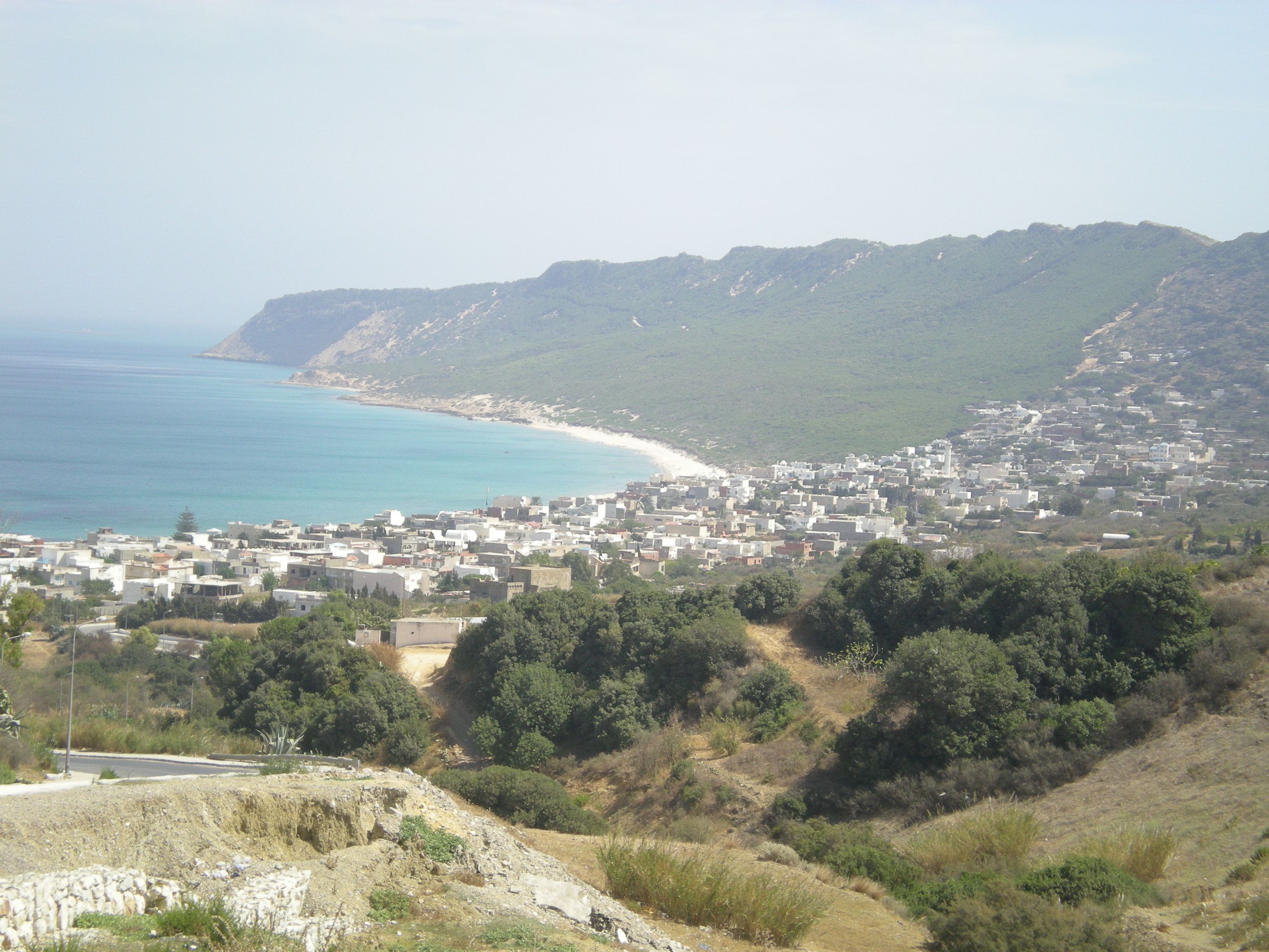 Rafraf beach village and cap Farina, Tunisia